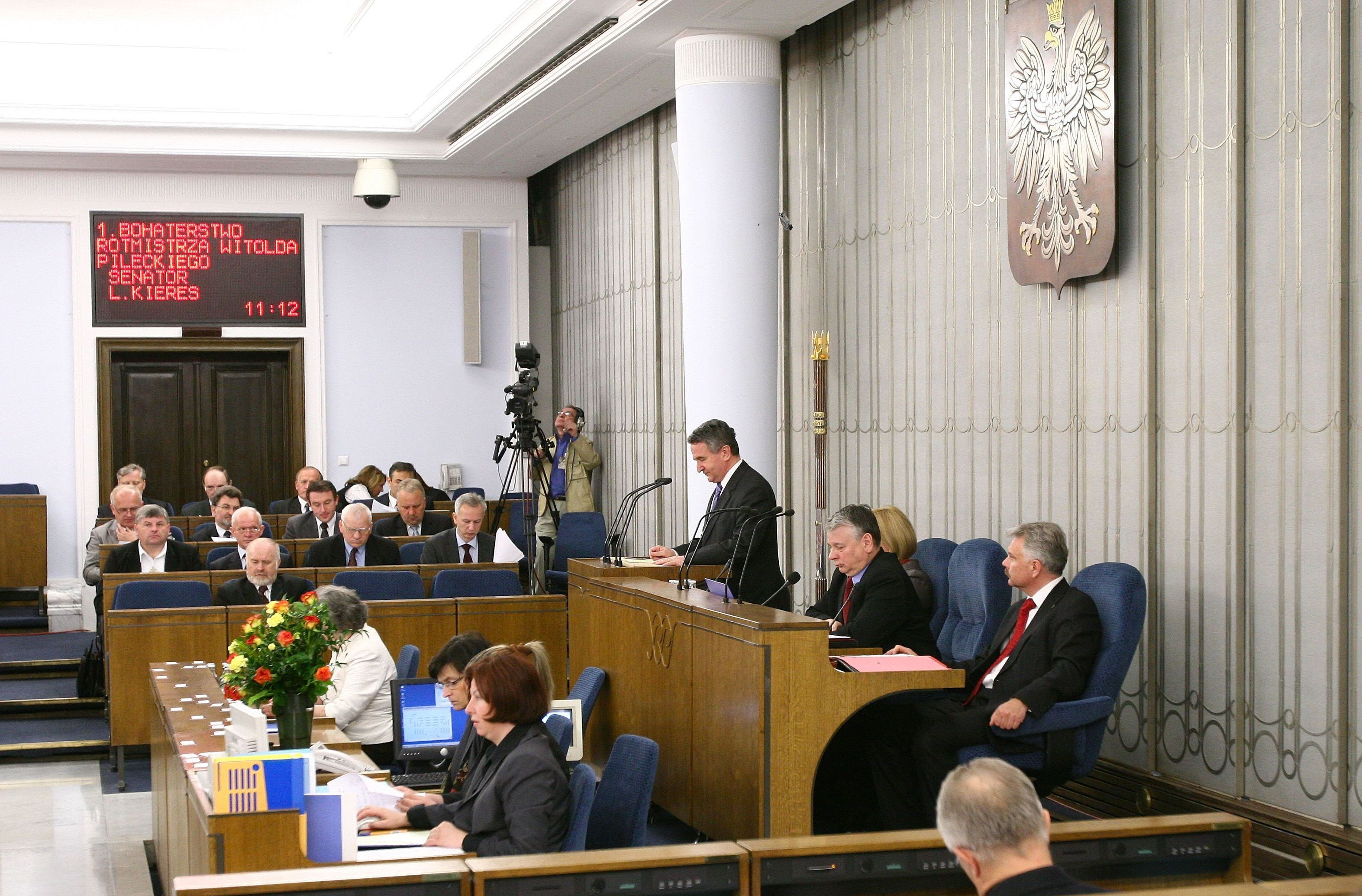 Senator Leon Kieres. 11th sitting of the Senate